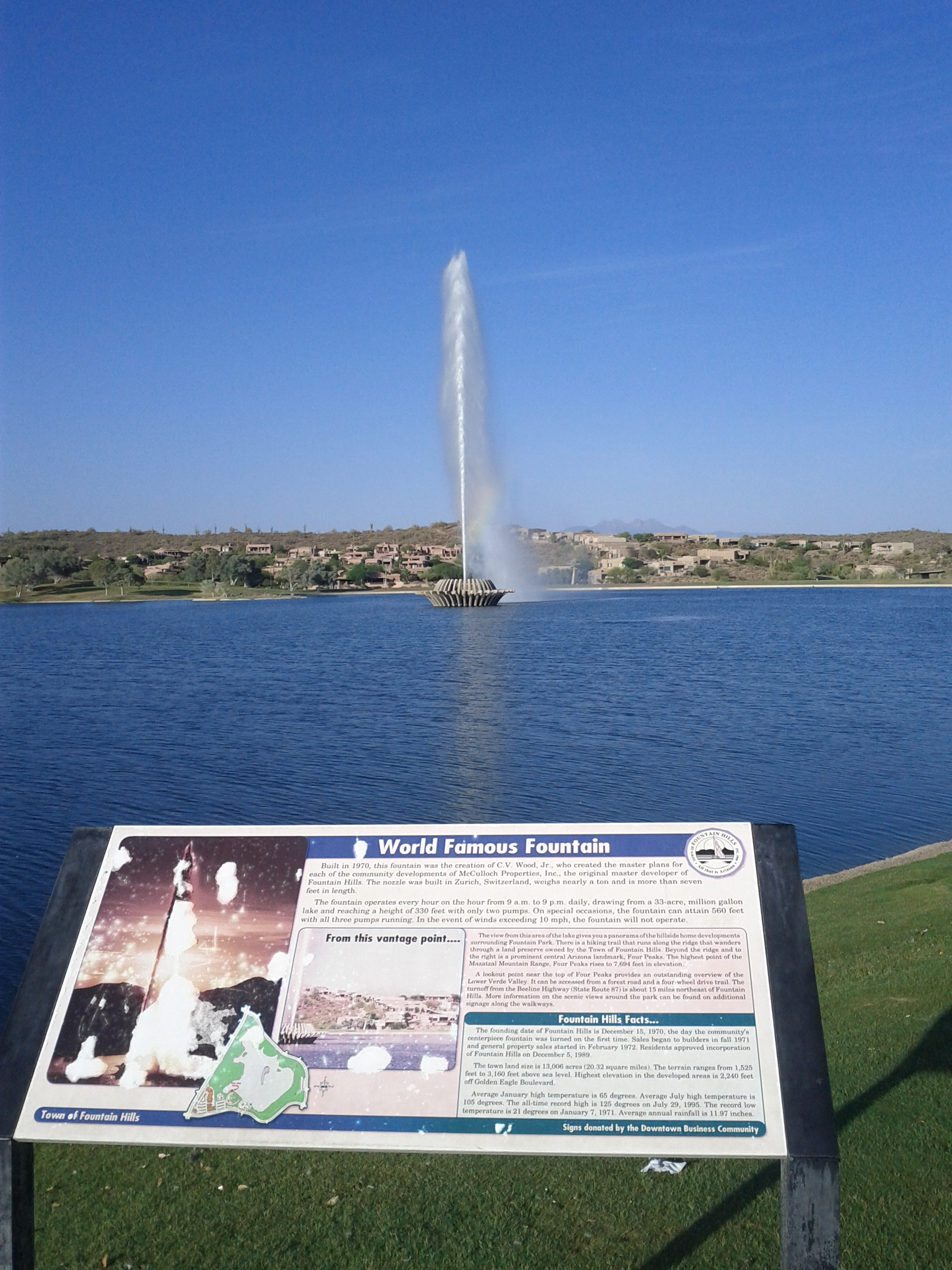 Fountain Hills Fountain Informative Plaque